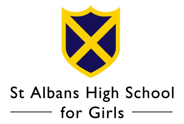 Logo for St Albans High School for Girls